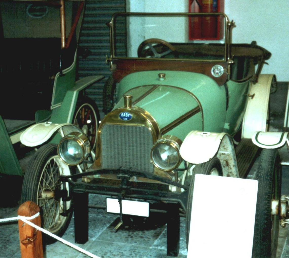 CID 1912 (Country of origin: France)